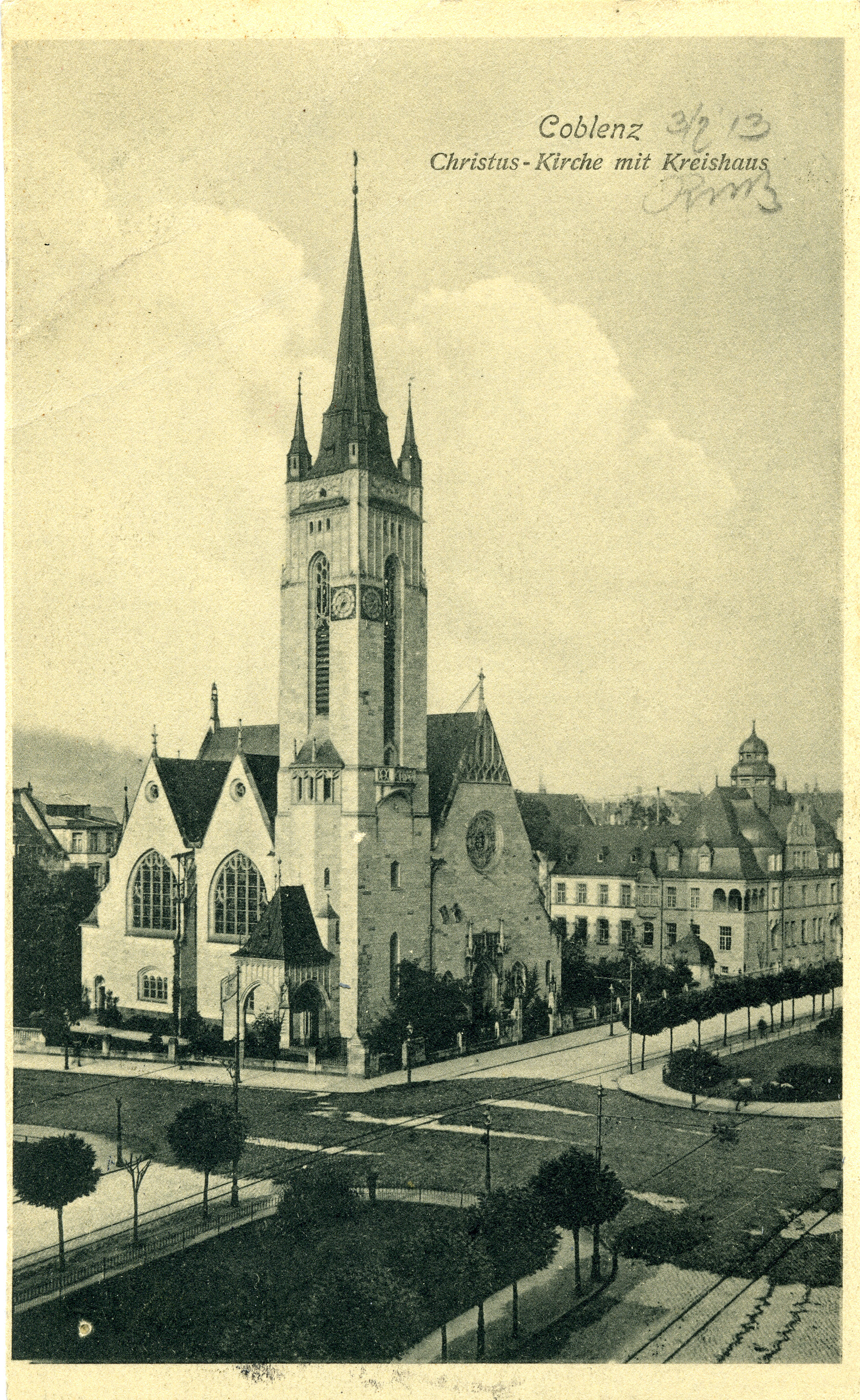 the protestant Christuskirche with the ‘Kreishaus‘ in Koblenz, designed as a unit by the Berlin architects Johannes Vollmer and Heinrich Jassoy, built 1901-05, destroyed 1944.